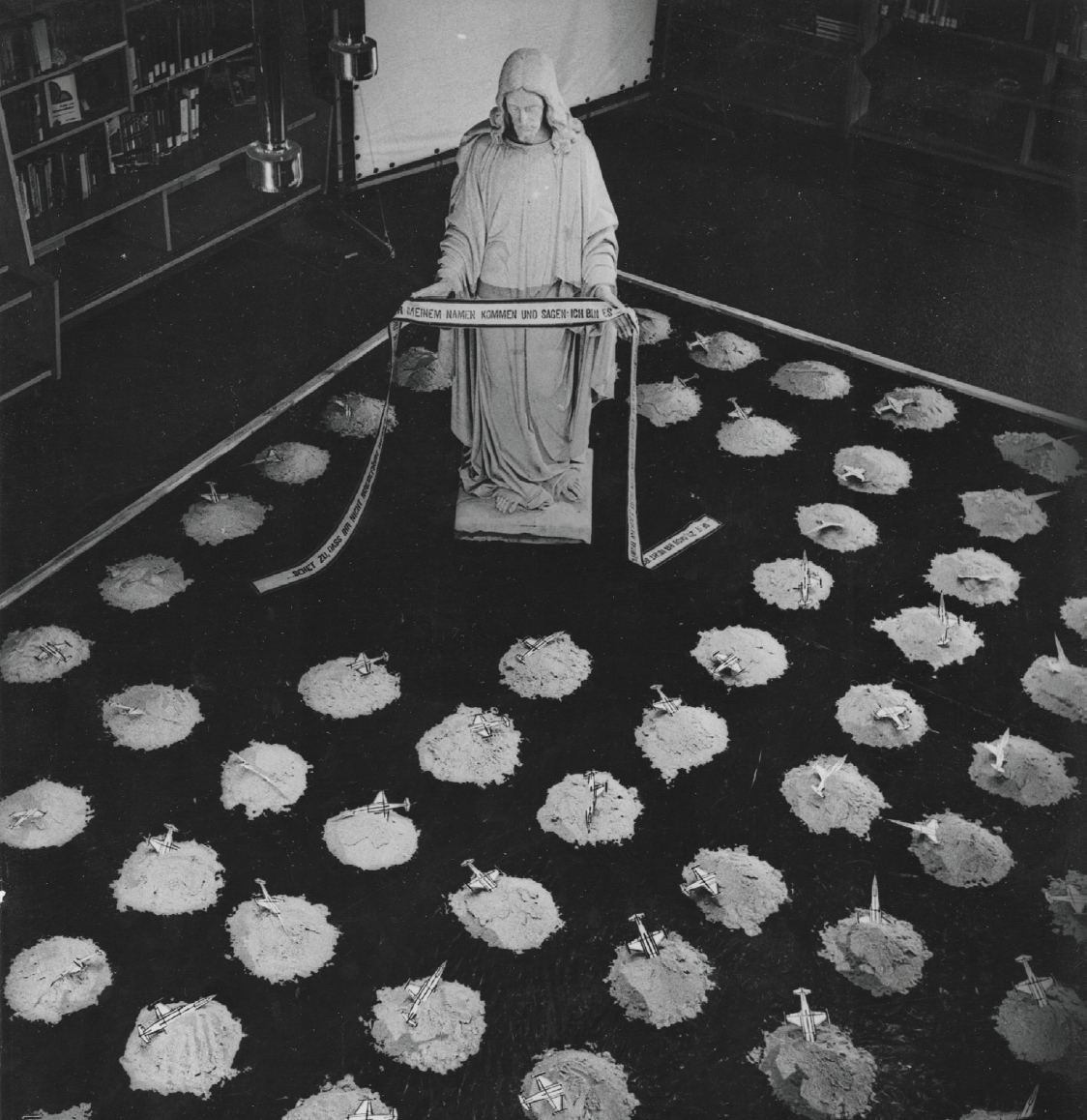 Dieter Reick, 162 Starfighters (1974). Environment on the occasion of the 162nd german Strafighter crash.